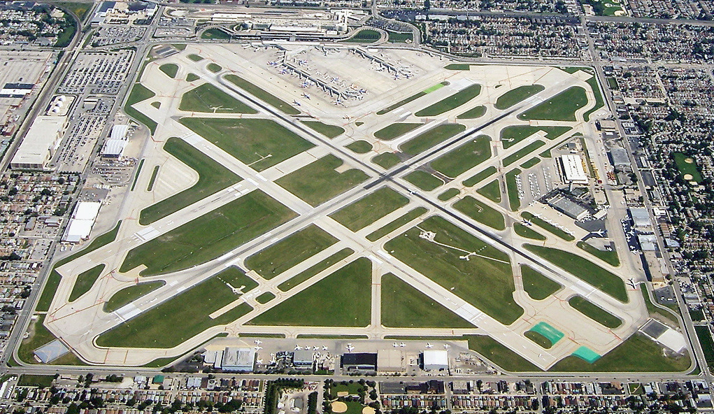 An Aerial view of Chicago Midway International Airport, a.k.a. the world's "Busiest Square Mile." Photo taken and used with permission by: Chris Bungo This photo can be found at